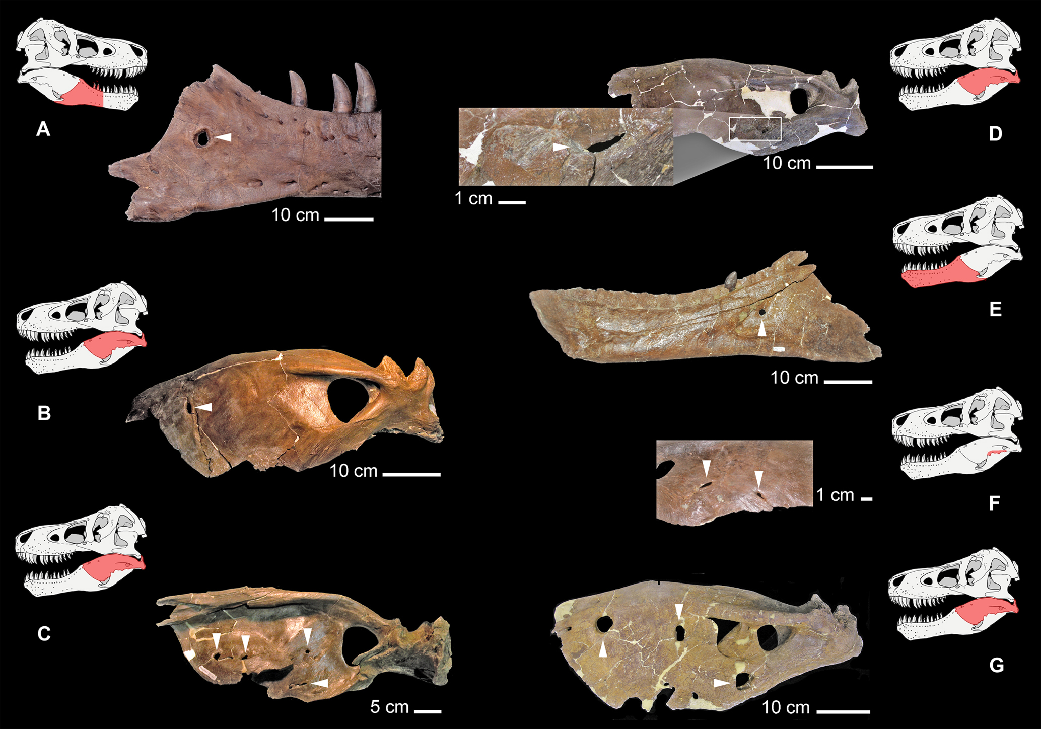 (arrows indicate trichomonosis-type lesions; the position of each specimen is shown in red on the accompanying schematic interpretation of the reconstructed skull of Tyrannosaurus rex, FMNH PR2081); (A), Tyrannosaurus rex (holotype; CMNH 9380) right caudal mandibular ramus in lateral view, displaying a large circumscribed erosive lesion on the caudal part of the dentary. (B) Daspletosaurus torosus (RTMP 2001.36.01) left caudal mandibular ramus in lateral view, displaying a single erosive lesion. (C), Daspletosaurus torosus (RTMP 2001.36.01) multiple erosive lesions are visible on the right surangular in medial view. (D), Albertosaurus sarcophagus (RTMP 1981.10.01), left caudal mandibular ramus in lateral view, showing a slit-shaped trichomonosis-type lesion in the middle of the angular, (enlarged area, inset). (E) Tyrannosaurus rex (MOR 1125), caudal part of left dentary in lateral view, showing a cylindrical-shaped lesion, with smooth edges and almost no surrounding bony alteration. (F), Daspletosaurus torosus (RTMP 94.143.1), surangular in ventral view, with one slit-shaped lesion and one intermediate lesion. The close-up shows the smooth edges and limited surrounding bony alteration characteristic of a trichomonosis-type lesion. (G), Tyrannosaurus rex (MOR 980), left surangular in lateral view, exhibiting multiple oval- to sub-oval-shaped lesions.